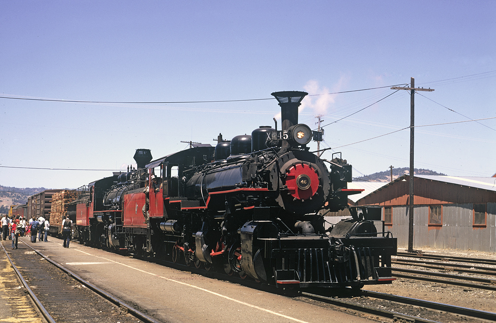 Double header with 2-6-6-2 #46 and 2-8-2 #45 on photo freigh at Willits in June of 1974.